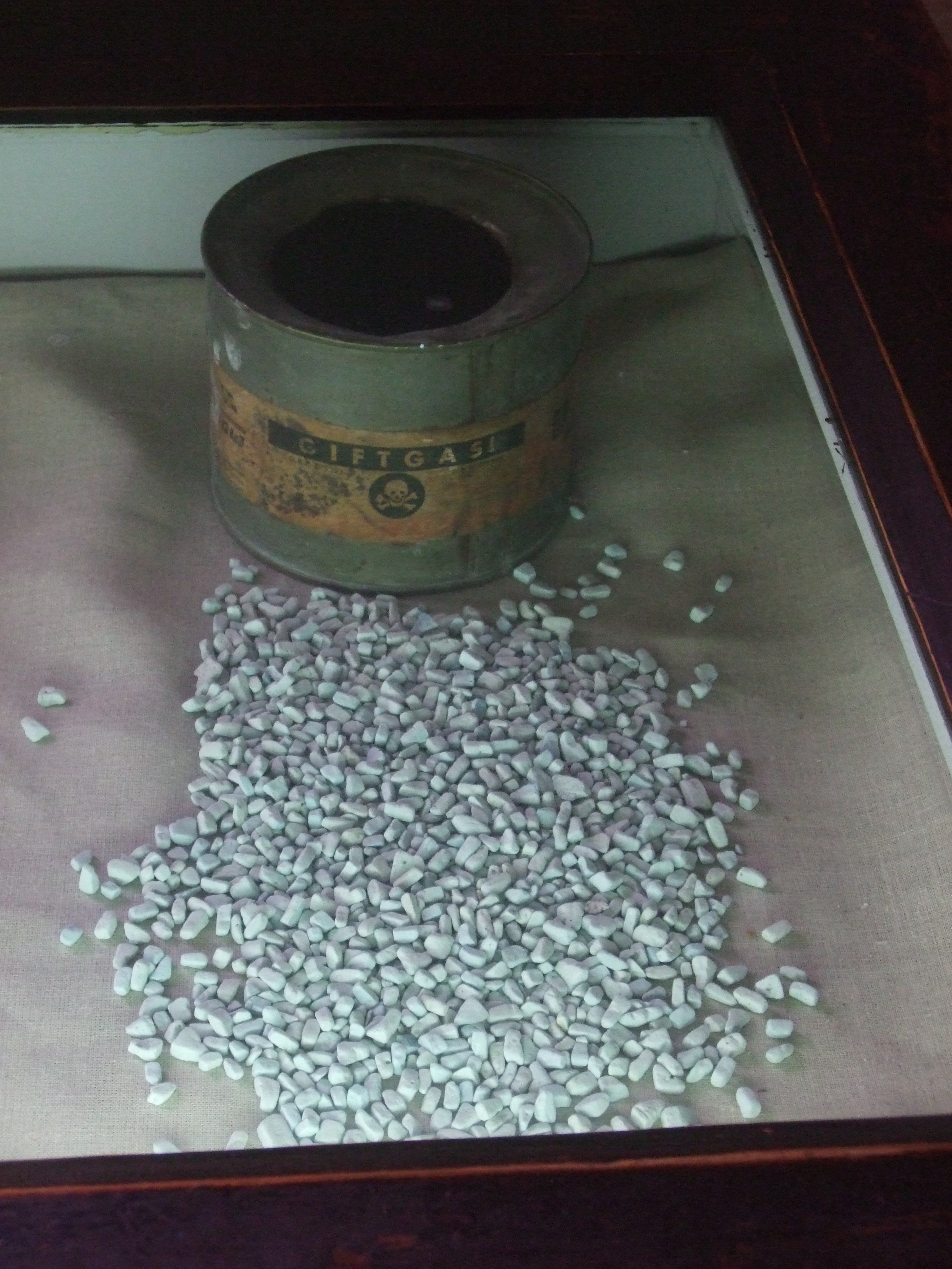 KZ Auschwitz I Stammlager, "Giftgas"